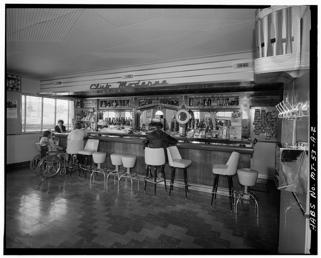 Interior of the Club Moderne bar — Anaconda, Montana. 1937 Streamline Moderne style architecture by Fred F. Willson. Historic contributing property to the Butte-Anaconda Historic District, and on the National Register of Historic Places in Deer Lodge County. 1979 photograph from the HABS—Historic American Buildings Survey images of Montana.